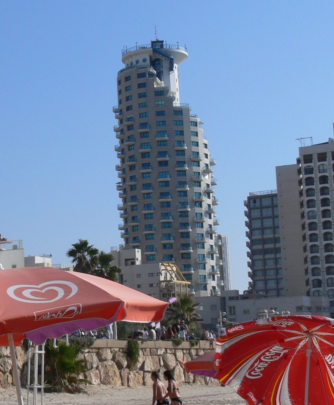 the Dan Hotek, ,Tel-aviv Beach.